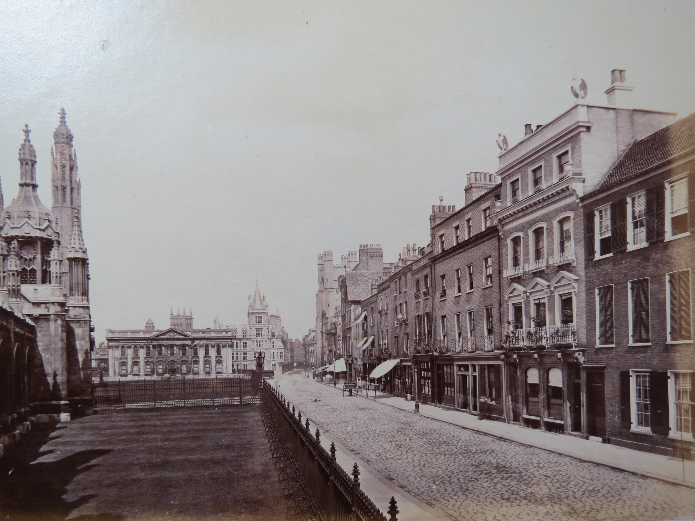 King's Parade, Cambridge University. Image taken from original albumen print from a bound album of 58 Cambridge University photographs. Original 19th century album in the possession of Kimberly Blaker, New Boston Fine and Rare Books.